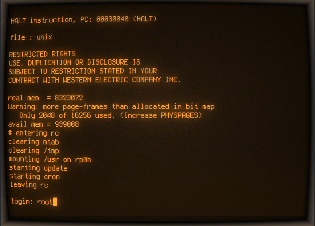 V7 running on VAX 11/780 emulated by SimH with display on Cool Retro Term.